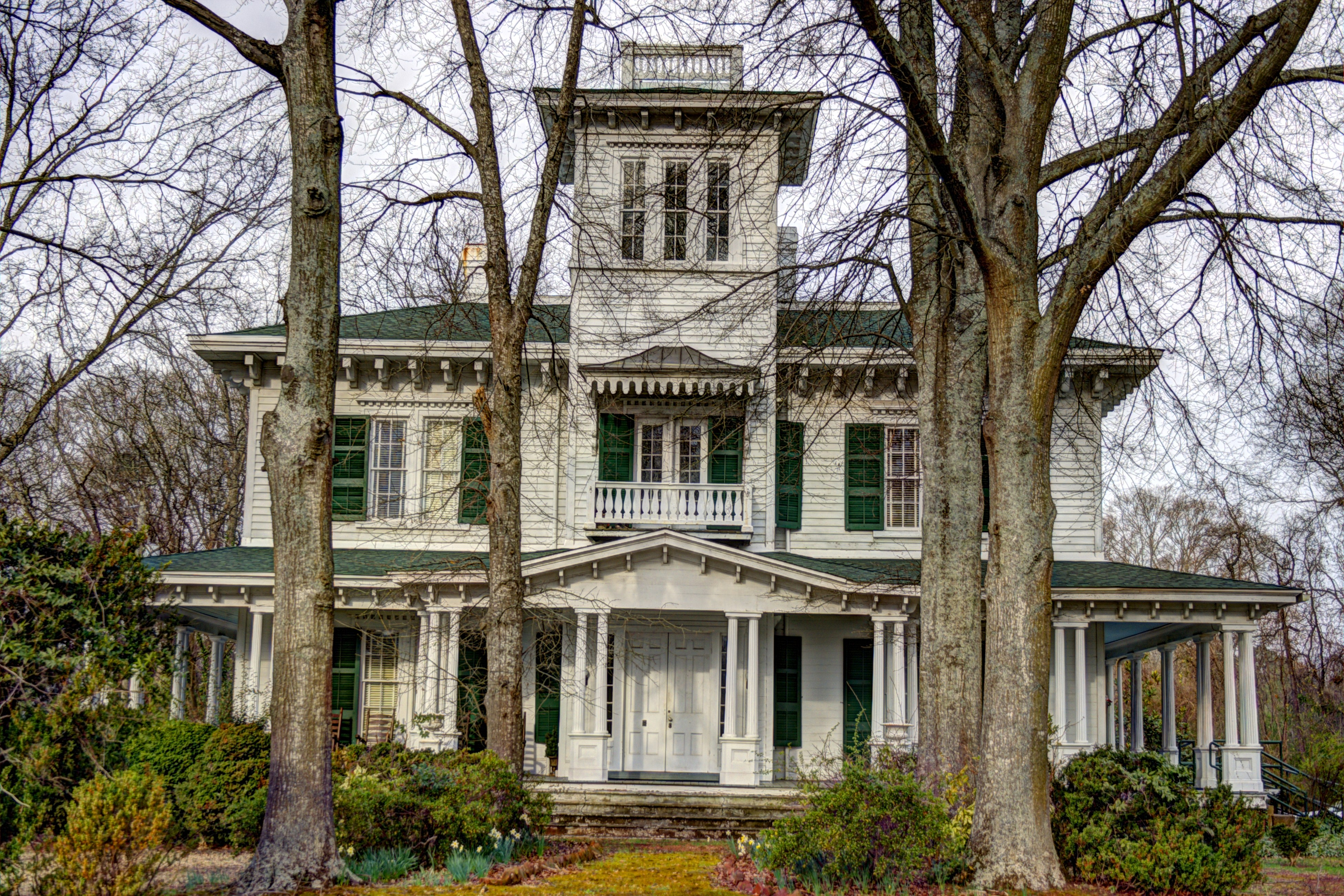 Ten Oaks